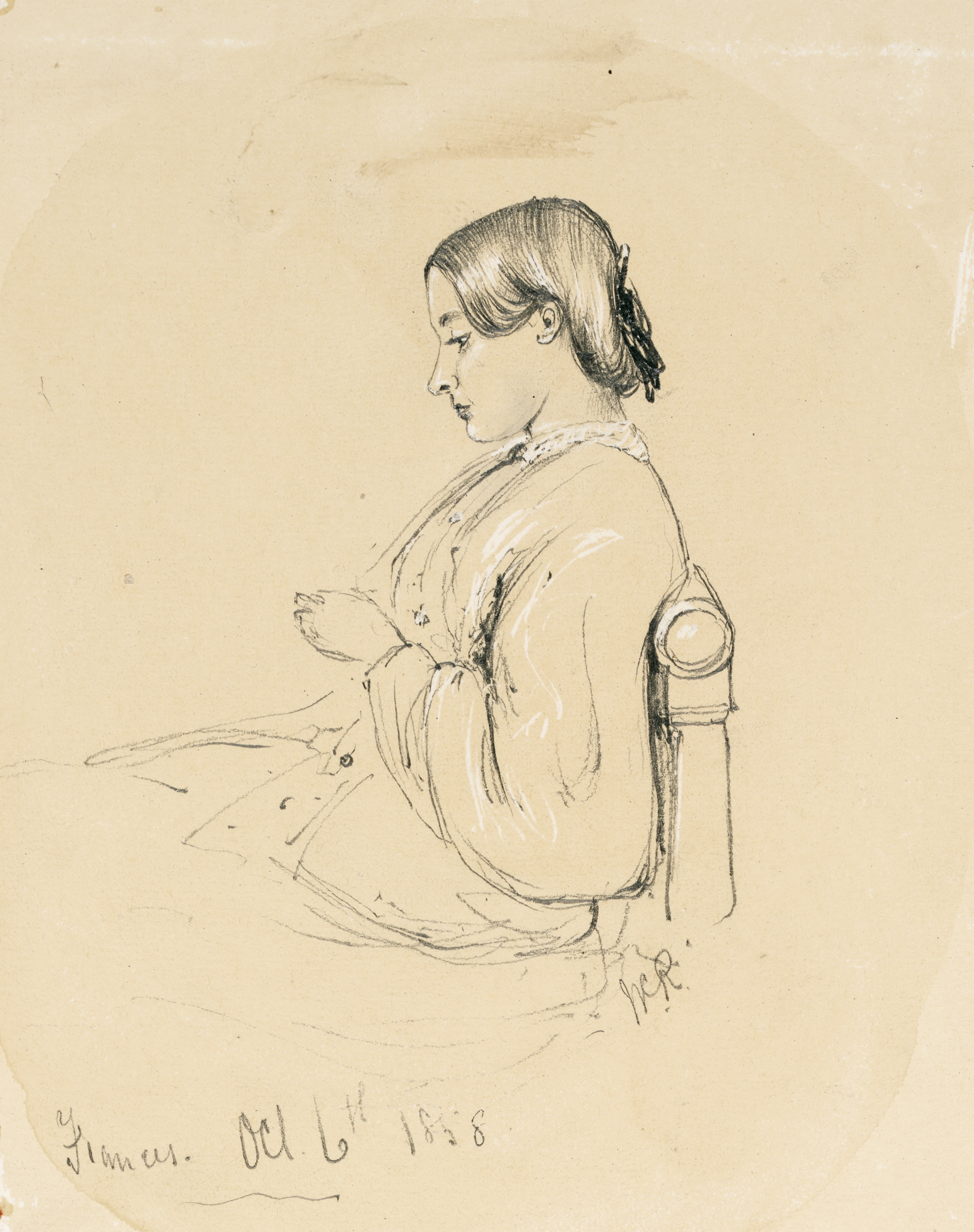 Portrait of the artist's wife, Frances Rees. She is shown in profile as a young woman, seated on a chair, looking down, her hands below her breast, possibly reading, knitting or sewing.